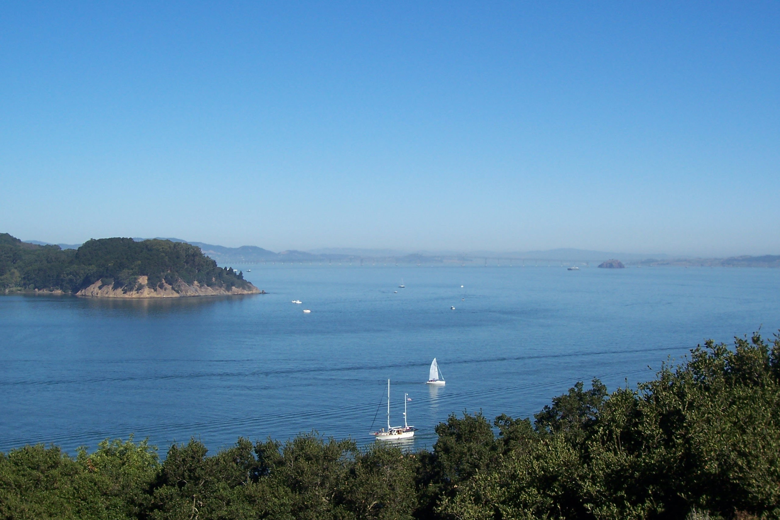 San Pablo Bay, California